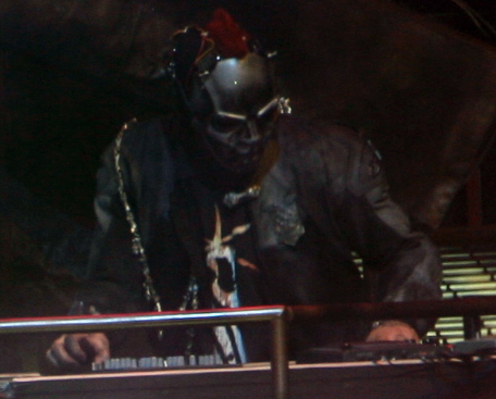 Turntablist Sid Wilson of Slipknot at the mayhem festival 2008.